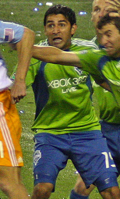 Leonardo Gonzalez of Seattle Sounders. This file has been extracted from another file: Seattle Sounders vs Houston Dynamo, Sounders defending 08122010.jpg